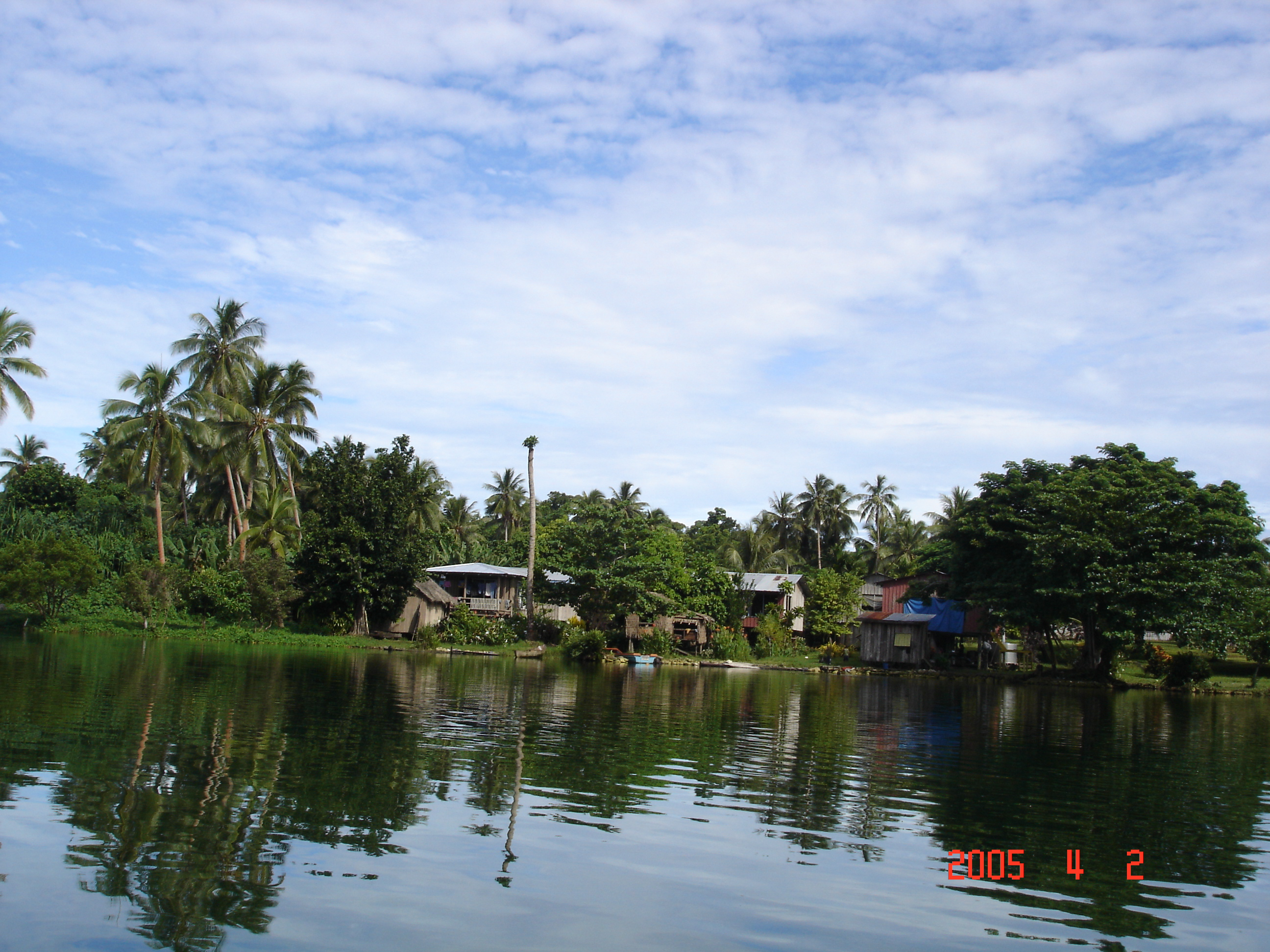 East Rennell (Solomon Islands)